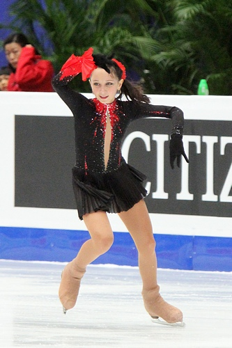 Elizaveta Tuktamysheva at the 2010-2011 Junior Grand Prix of Figure